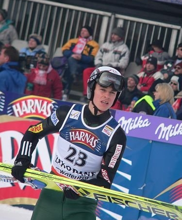 Piotr Żyła during sunday compettion of FIS Ski Jumping World Cup in Zakopane, 2006